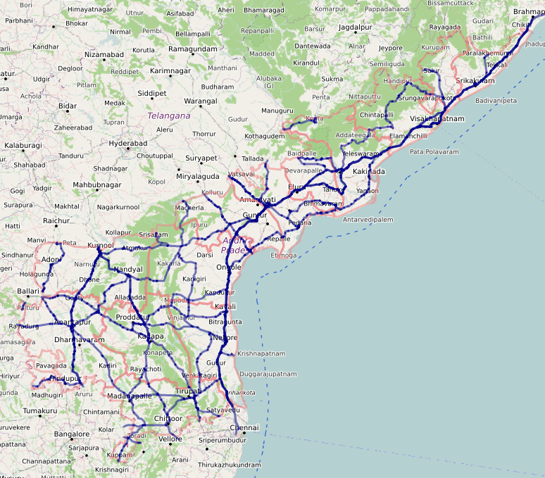 India Andhra Pradesh National Highway Network Screenshot Based on with highway query data from highway=trunk in "Andhra Pradesh" District boundaries overlaid